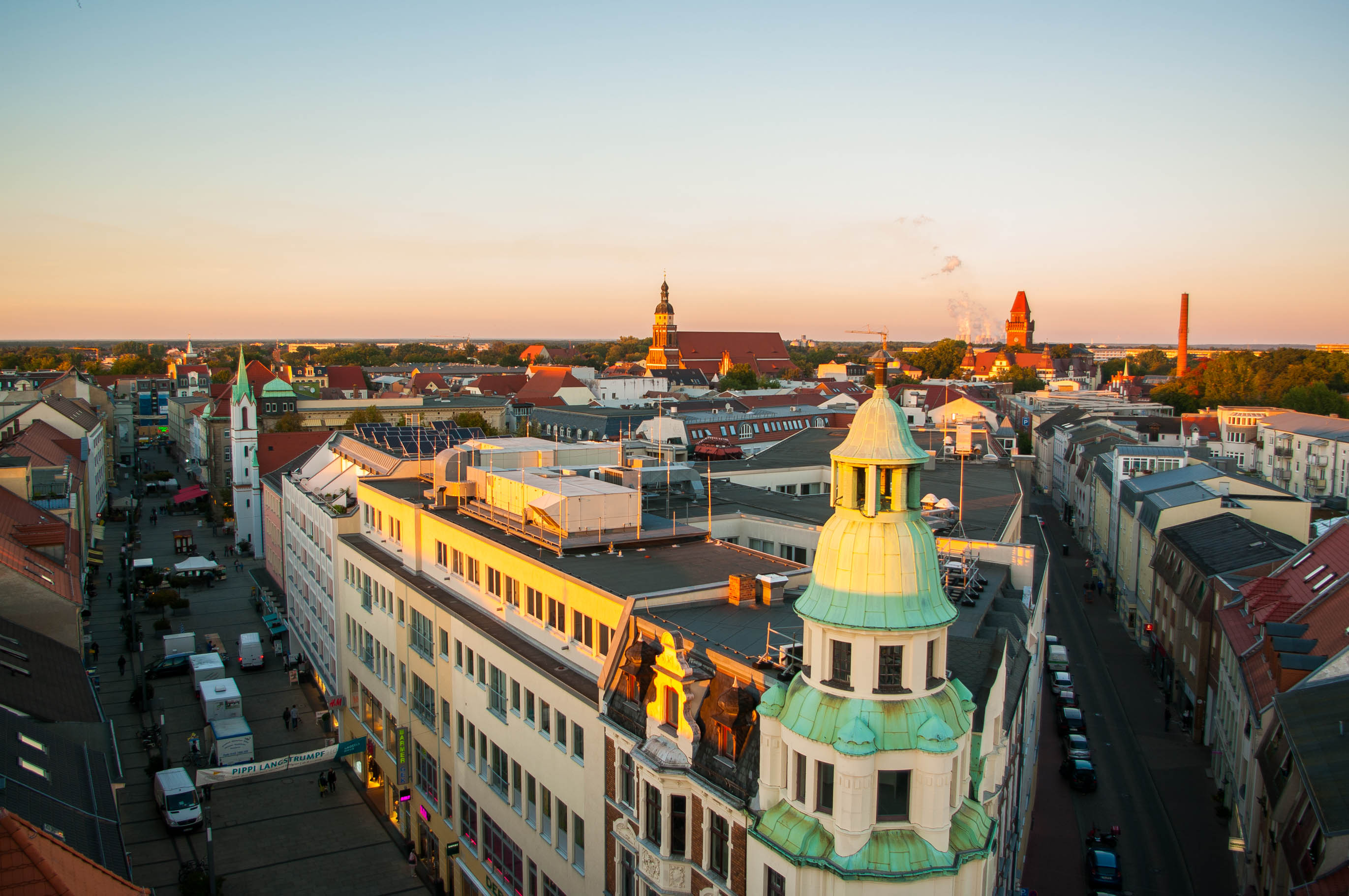 View of the city of Cottbus at sunset